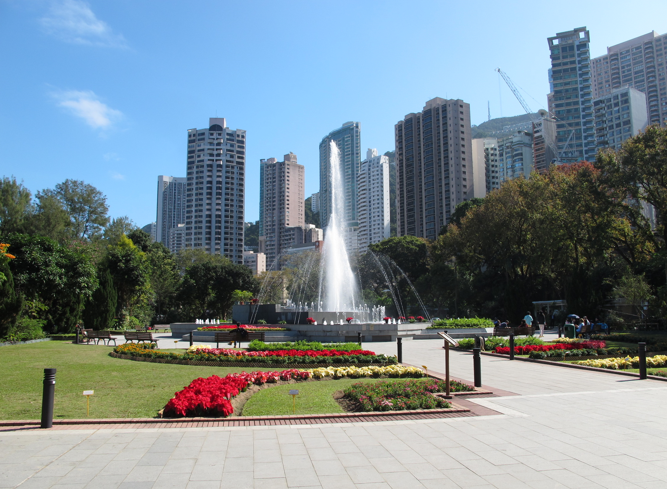 Hong Kong Zoological and Botanical Gardens